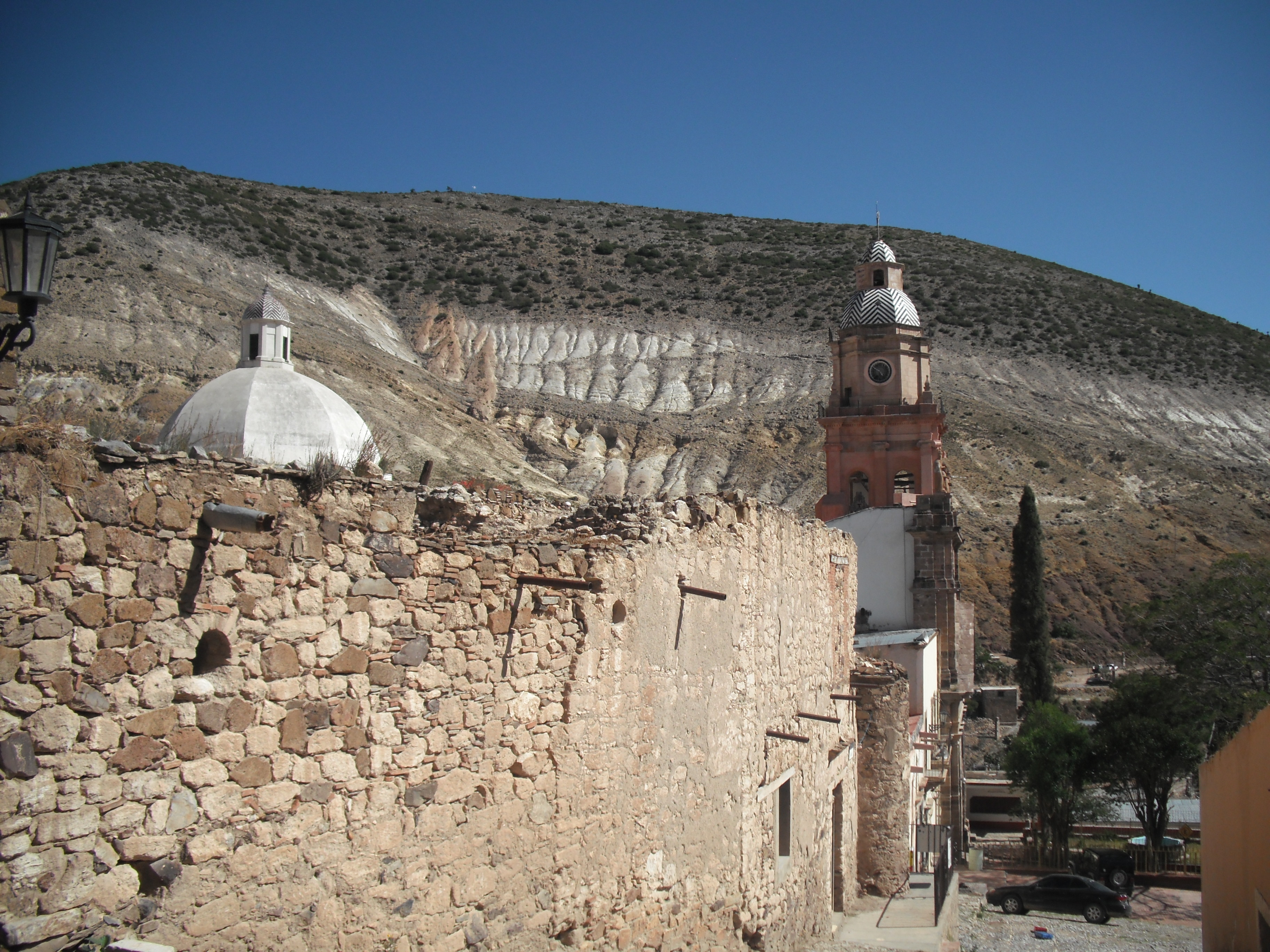 Templo de la Purísima Concepción, containing a reputedly miraculous image of St. Francis of Assisi